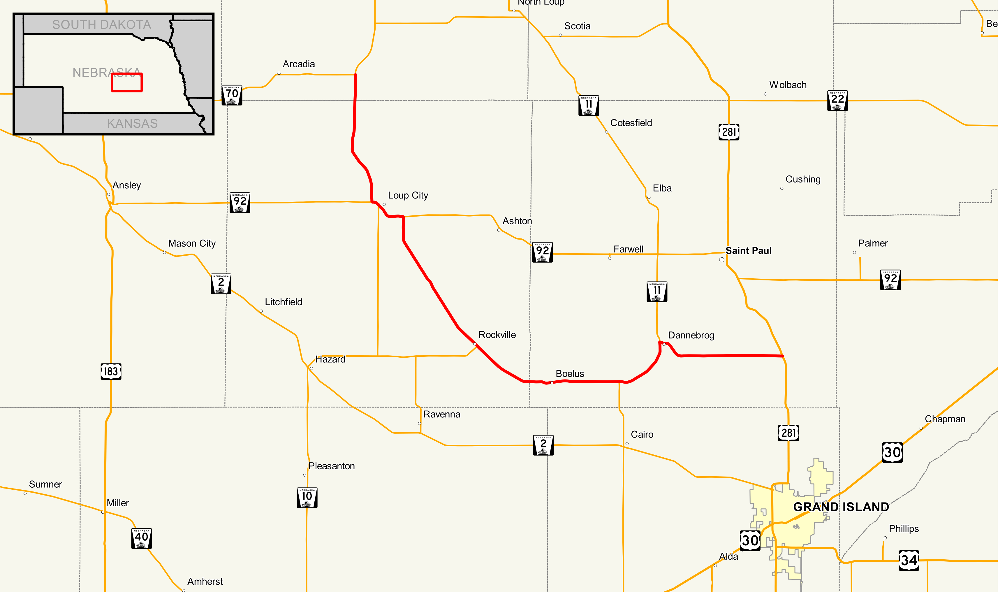 Map of Nebraska Highway 58 Data Sources: Nebraska Highways - - Dec 2016 Nebraska County Boundaries - - Dec 2016 Nebraska City Boundaries - - Dec 2016 This PNG graphic was created with QGIS